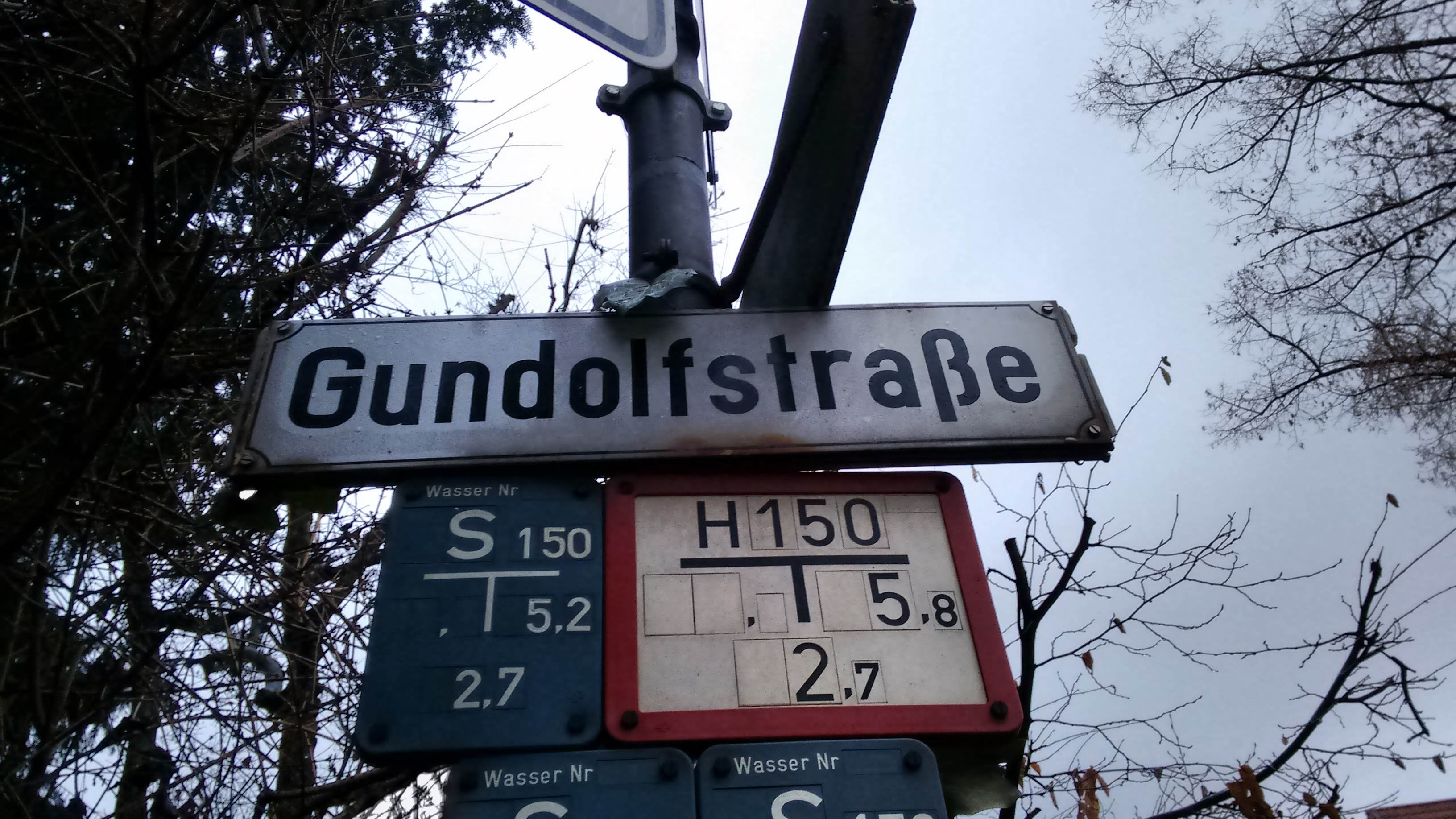 Street named after the famous Heidelberg professor Friedrich Gundolf